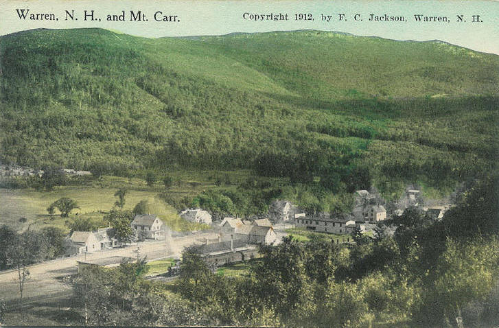 Postcard: Warren, New Hampshire bird's-eye view, with Mount Carr, copyright 1912 (expired) Description: "Copyright 1912 by F. C. Jackson, Warren, N.H."